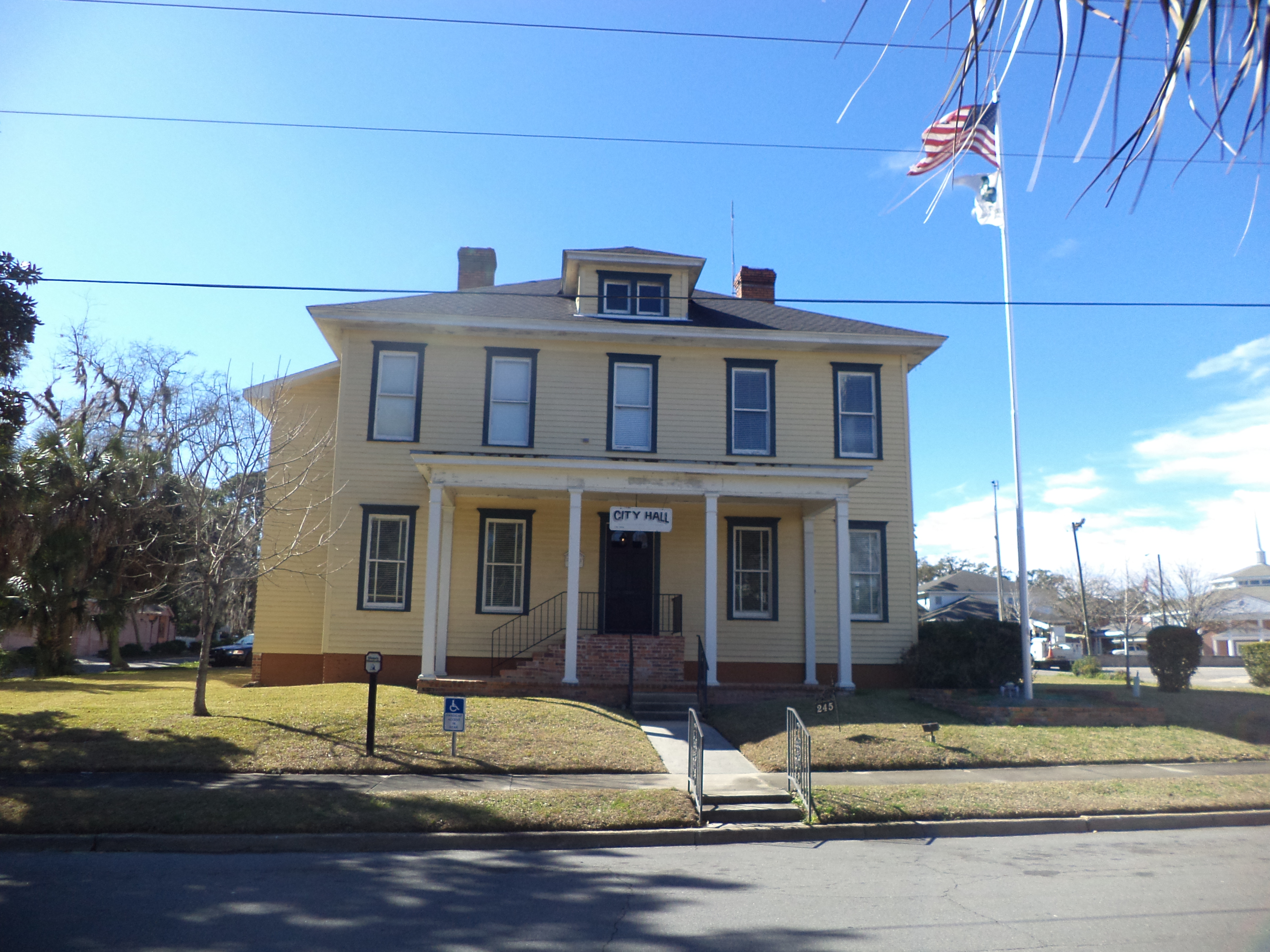 Monticello City Hall, 245 S Mulberry St, Monticello, Jefferson County, Florida